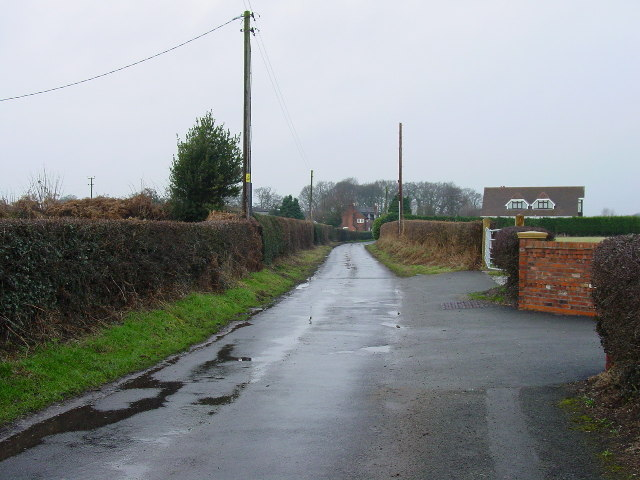 The lane running through Smethwick Green. Looking NW from Home Farm at Smethwick Green.